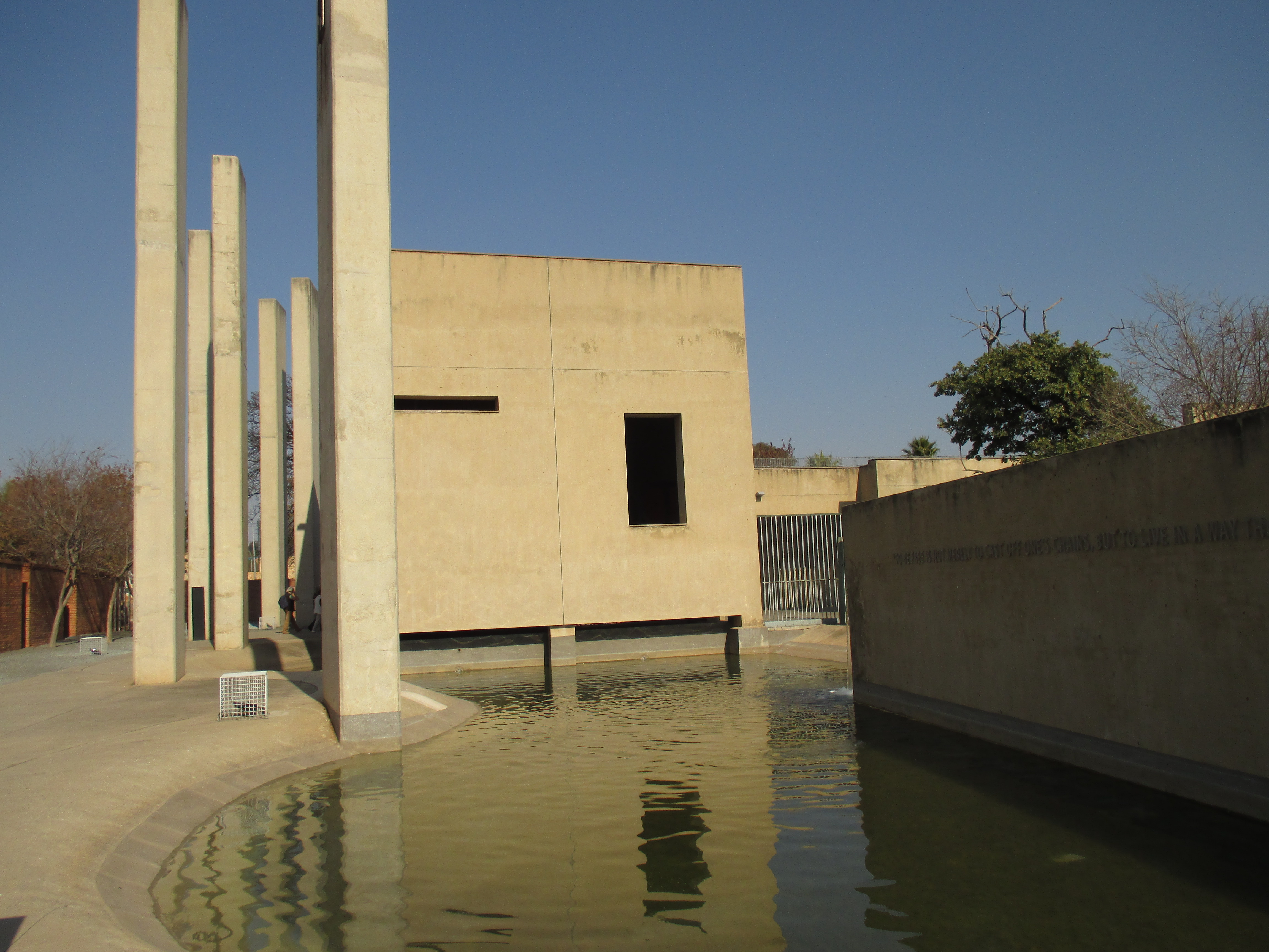 Pool of reflection at the South African Apartheid Museum, Johannesburg This media shows a South African Protected Site with SAHRA file reference [1].